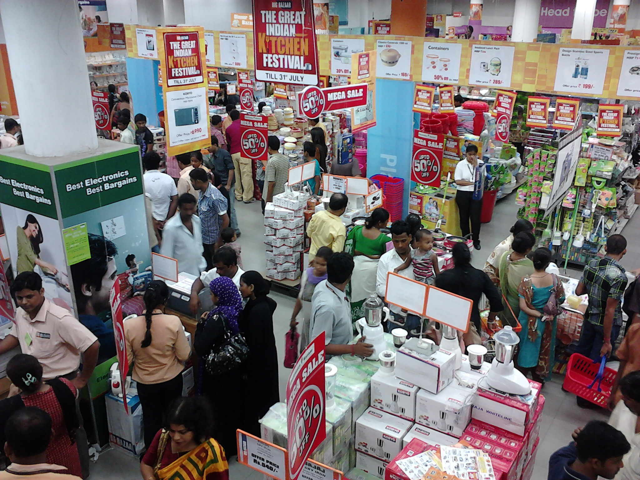 Big bazaar is a chain of shopping malls in India. This mall is at the Esplanade, Kolkata.